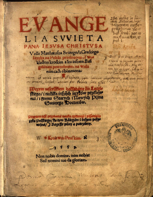 Title page of the first translation of the Gospel into Polish, 1551 by Jan Seklucjan. Only remaining copy.